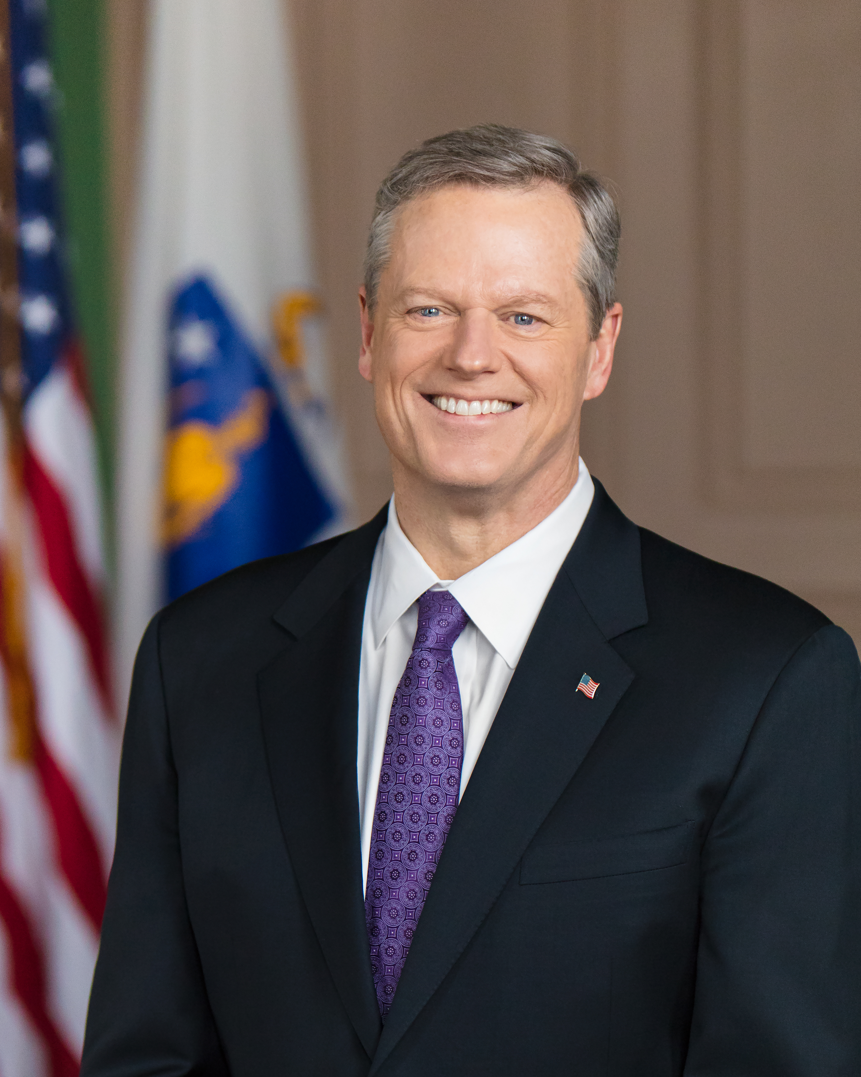 Charlie Baker, governor of Massachusetts